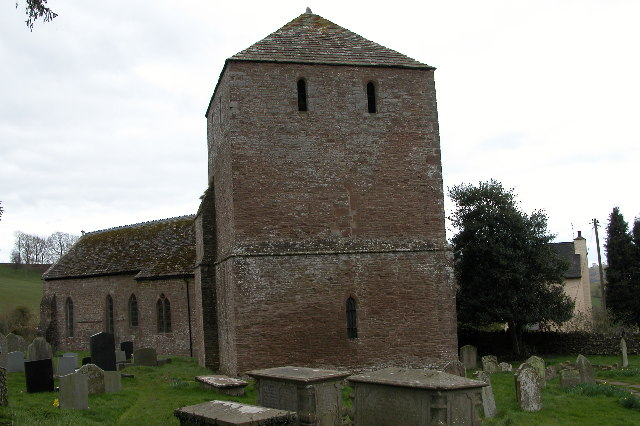 Garway Church. St Michael's church, Garway. The church is unusual in that the tower is offset at an angle to the main body of the church. The original church was built here on land given to the Knights Templar by King Henry II in 1180